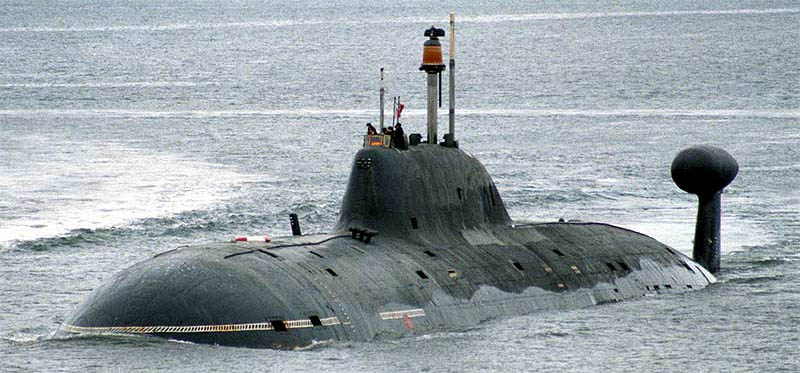 Crop of Image:Submarine Vepr by Ilya Kurganov.jpg